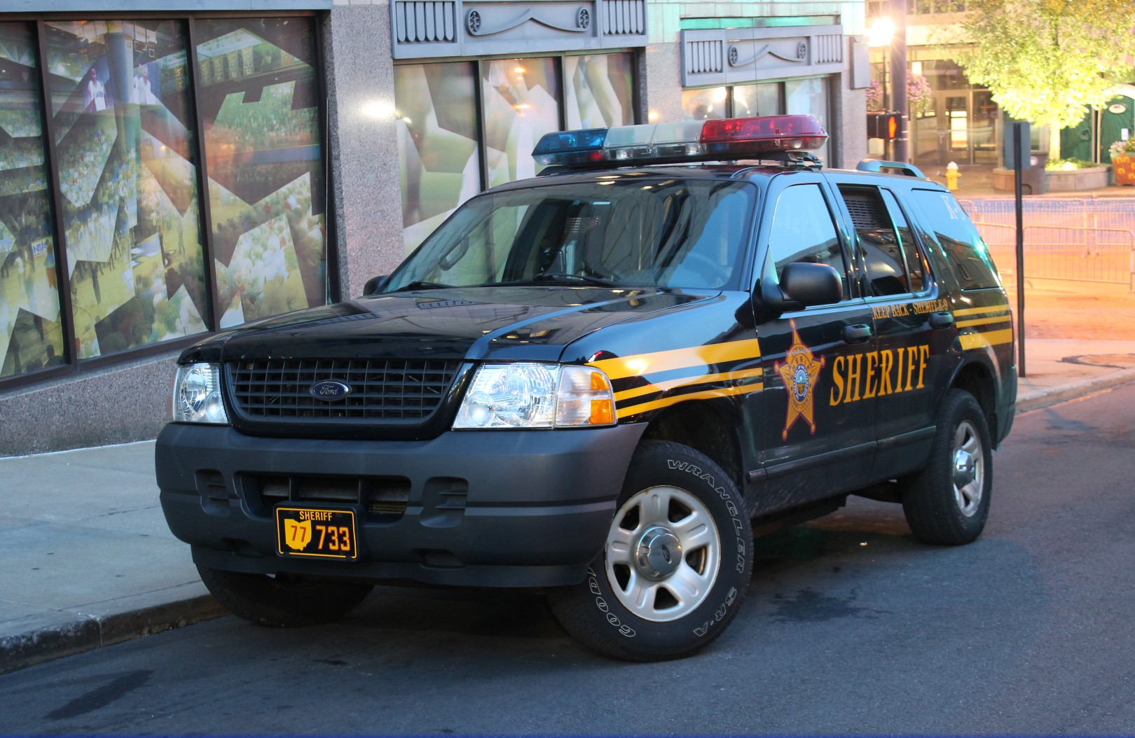 Seen perfoming security for the Gay Games 9 Marathon in Akron Ohio